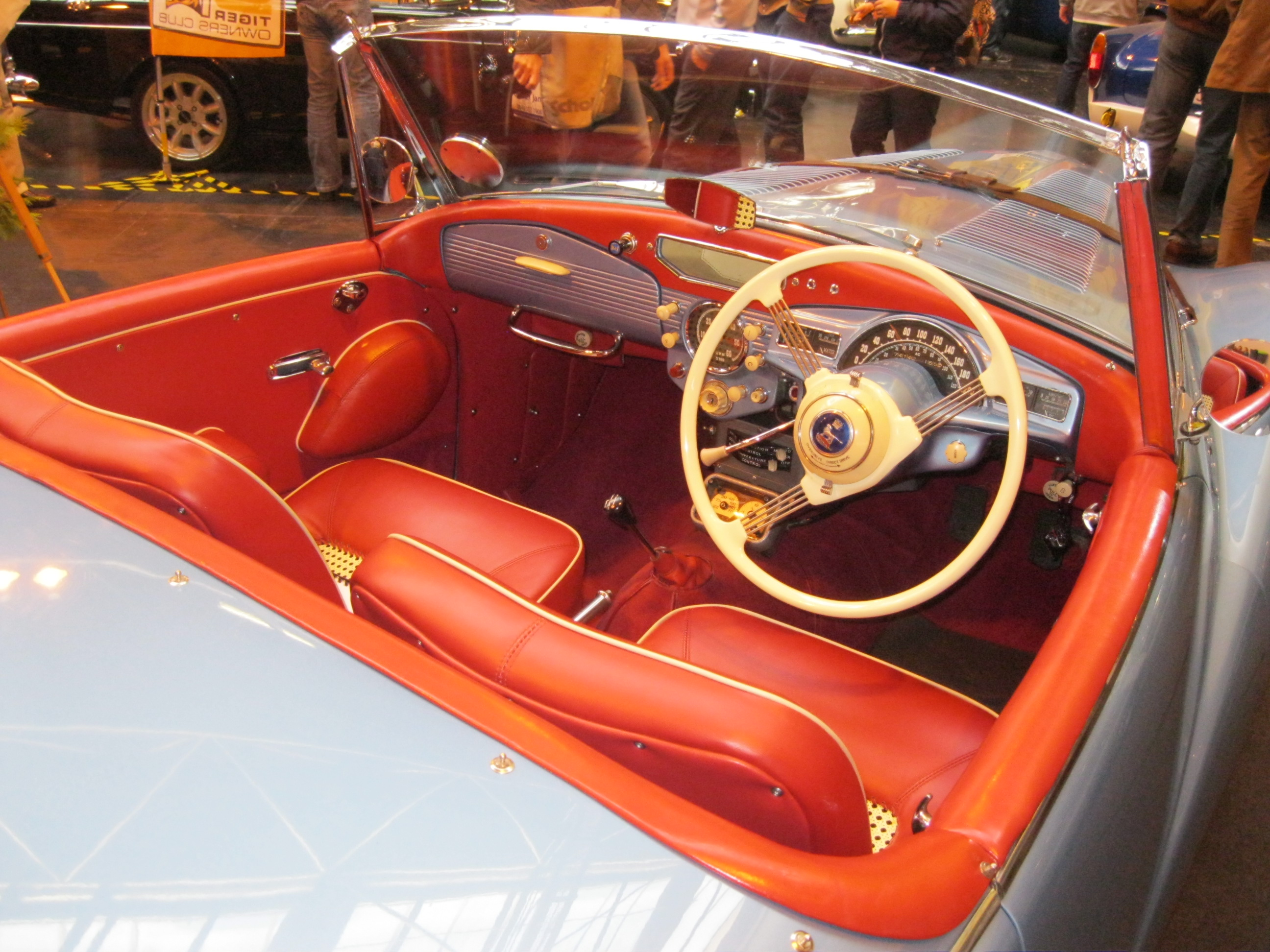 2 door roadster version of the Sunbeam-Talbot, spotted at the NEC Classic Show November 2012.